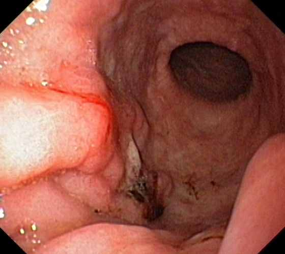 stomach cancer